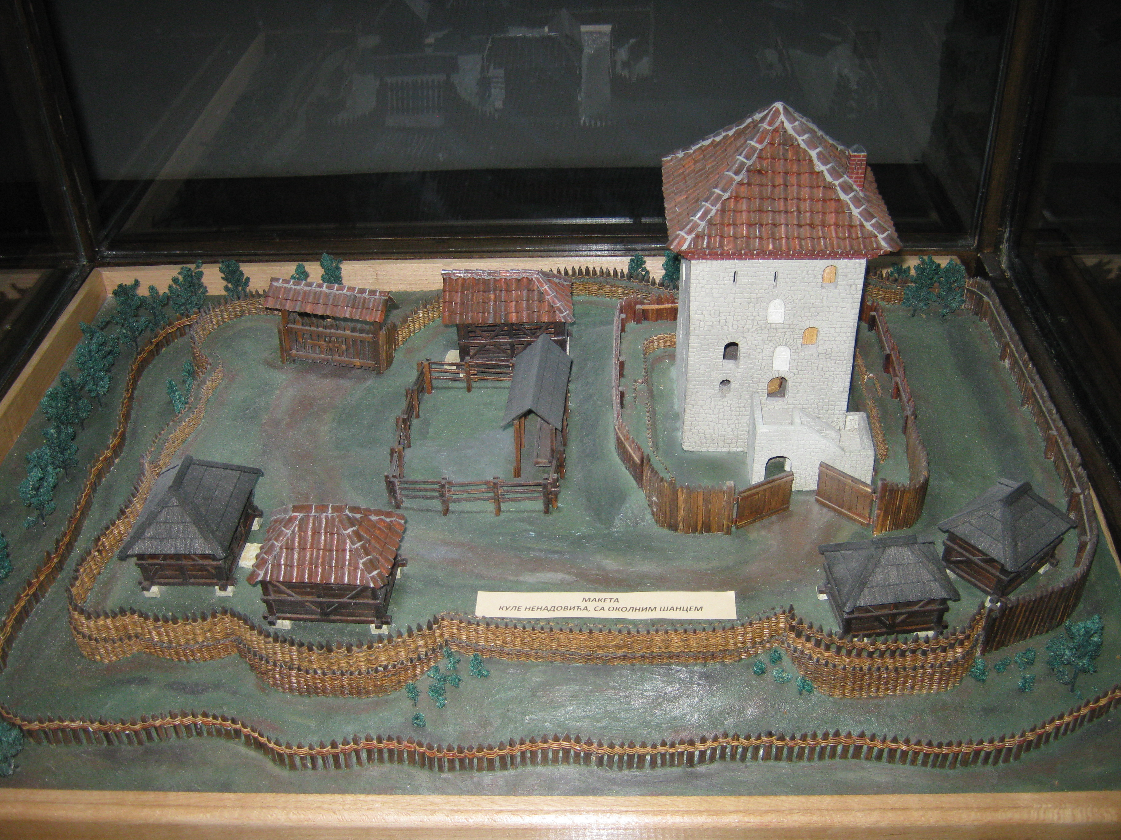 Nenadović Tower model